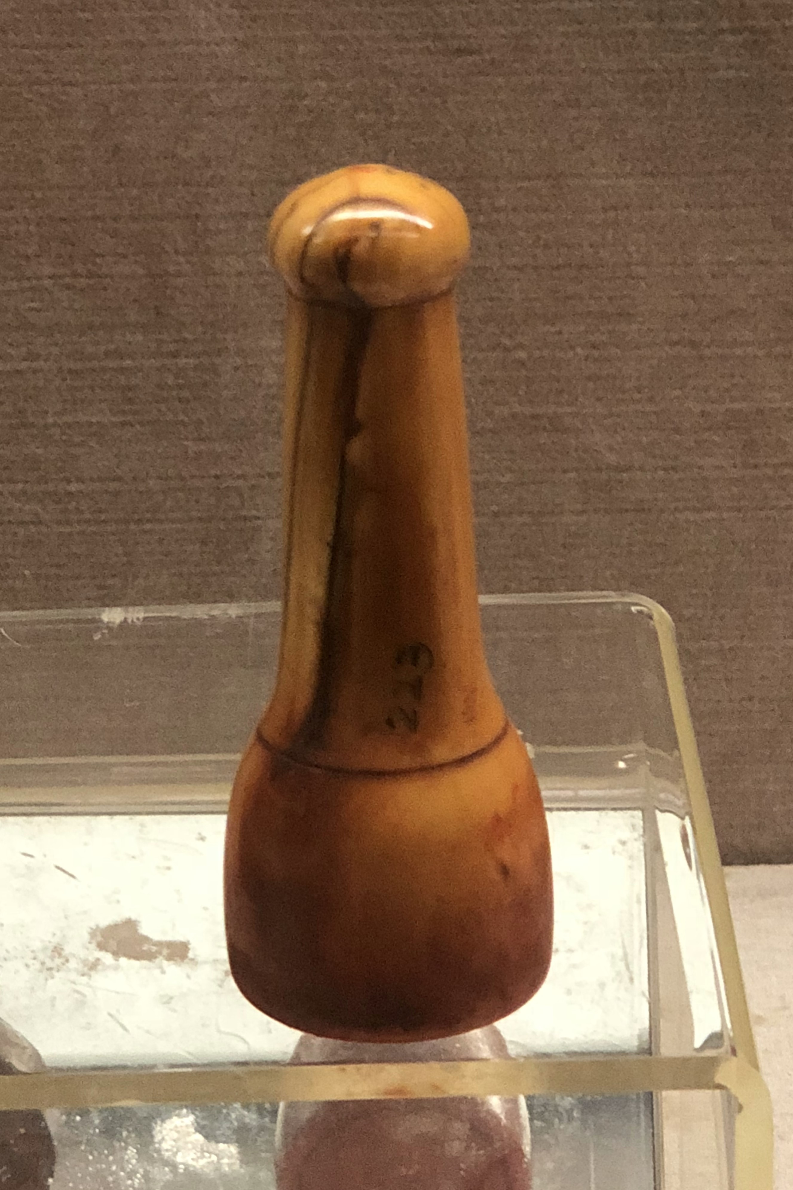 Zhao Pianling's Ivory Official Seal. Ming Dynasty.